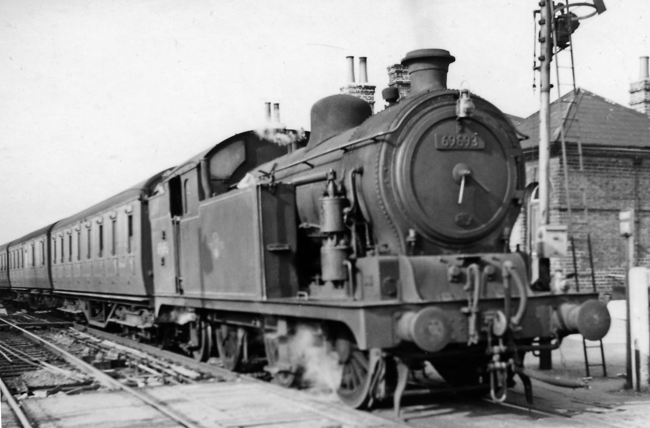 Hertford East to Liverpool Street train at St Margarets. View northward, towards Hertford, also Buntingford on the branch. (See also TL3811 : St Margarets Station, with Buntingford branch train). The locomotive is No. 69693, a typical N7/3 (round-top firebox) 0-6-2T, built 8/27 as No. 2653 (No. 9693 from 1946) and withdrawn 9/61.